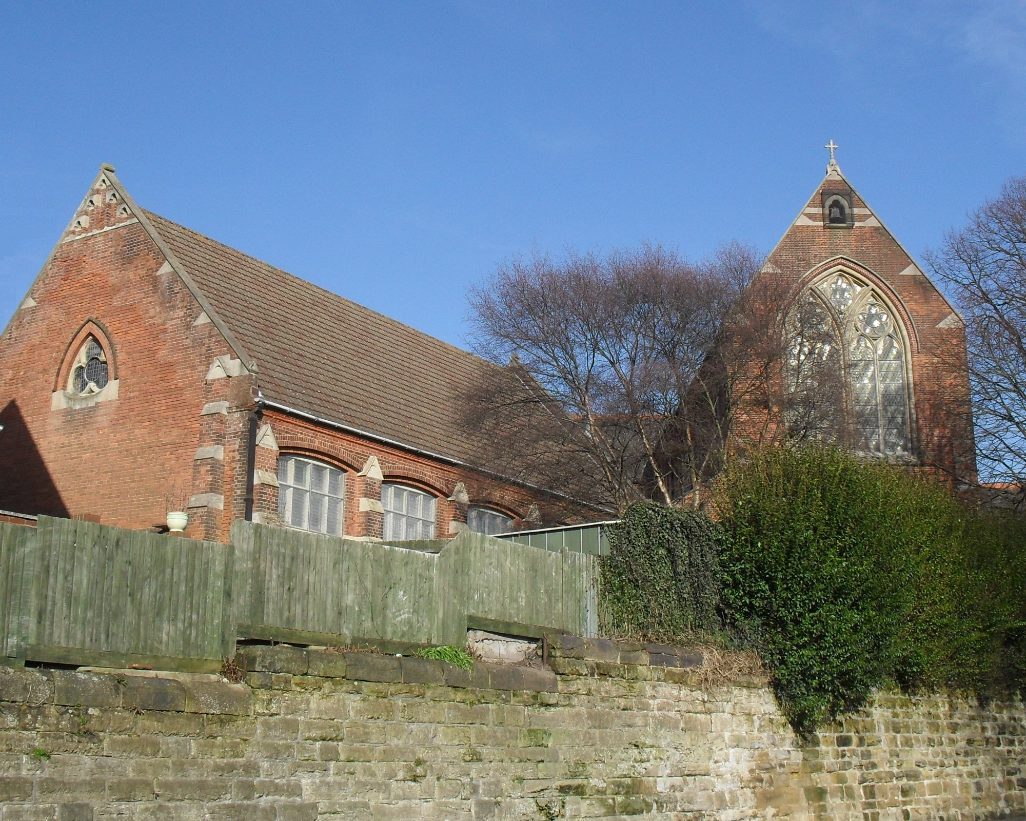 View of the west end of St Peter's Church, St Peter's Road, Bohemia, Hastings, East Sussex, England. Designed by James Brooks and completed by building firm John Howell & Son of Hastings in 1885. Listed at Grade II* by English Heritage (NHLE Code 1353235)